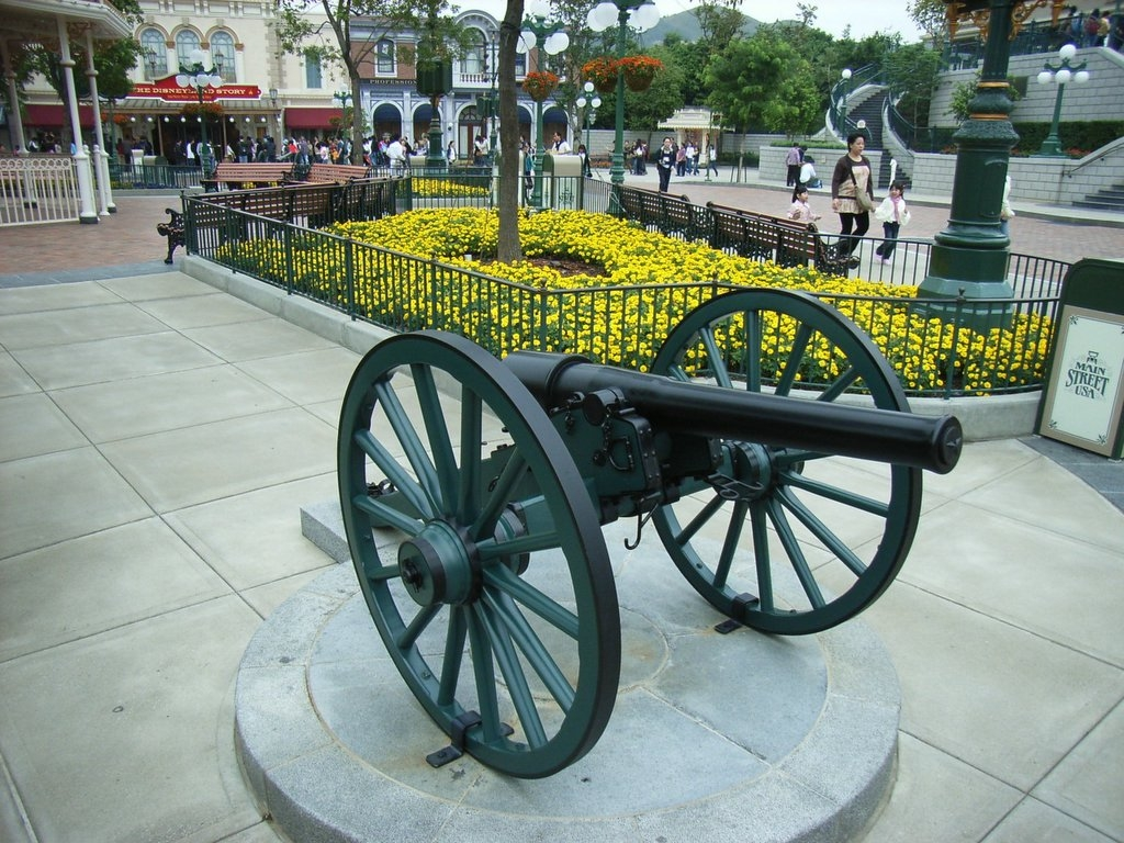 HK Disneyland, 香港迪士尼樂園, 位於香港大嶼山竹篙灣. The weapon is an American 10 pounder Parrott rifle or replica.